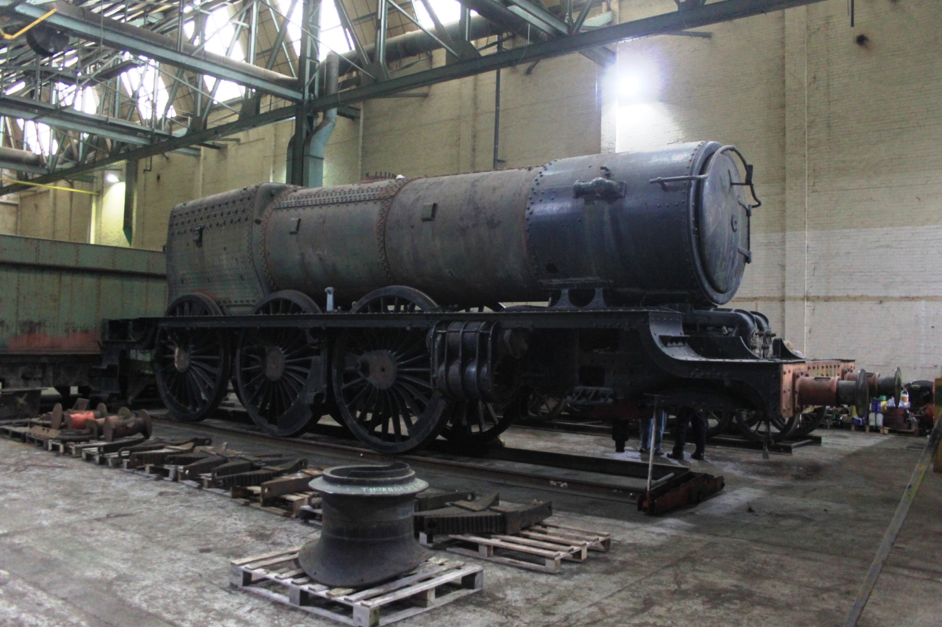 Great Western Railway 7027 Thornbury Castle hasn't worked in more than half a centuray, but in 2016 it was bought by Jon Jones-Pratt and taken to his bus workshop in Weston-Super-Mare to be restored to main line running condition.